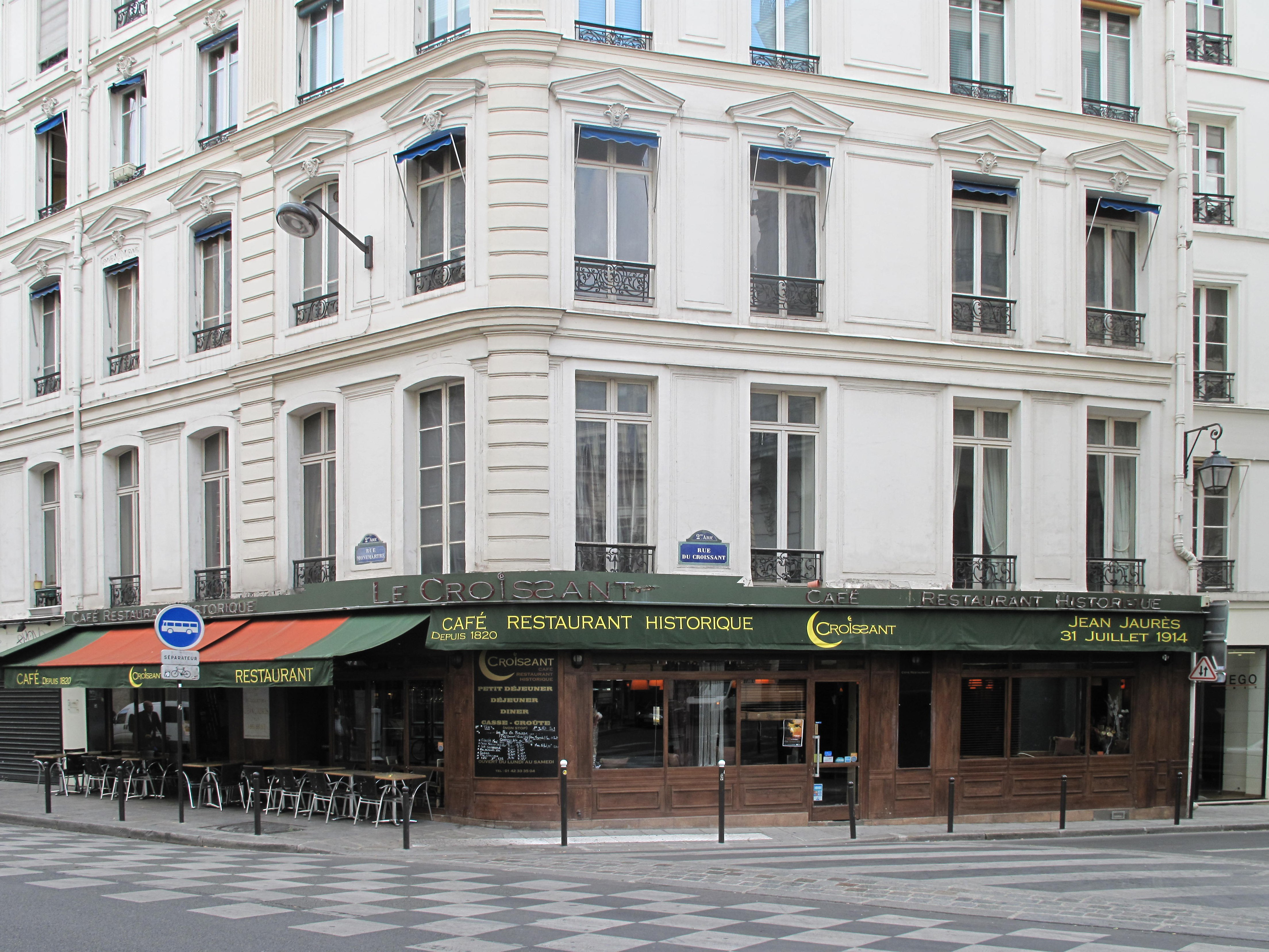 The café du Croissant where Jean Jaurès was murdered on 7/31/1914 : 146, rue Montmartre, Paris 2nd arr.